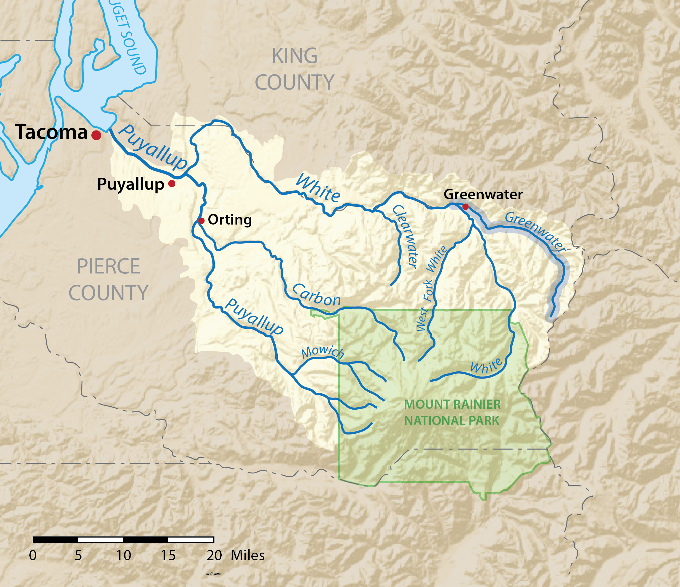 Map of the Puyallup River watershed in Washington, USA with the Greenwater River highlighted. Made using USGS National Map data.